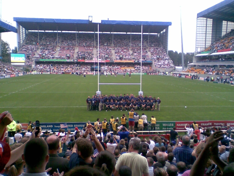 USA squad and staff at Stade Félix-Bollaert in the Rugby World Cup 2007